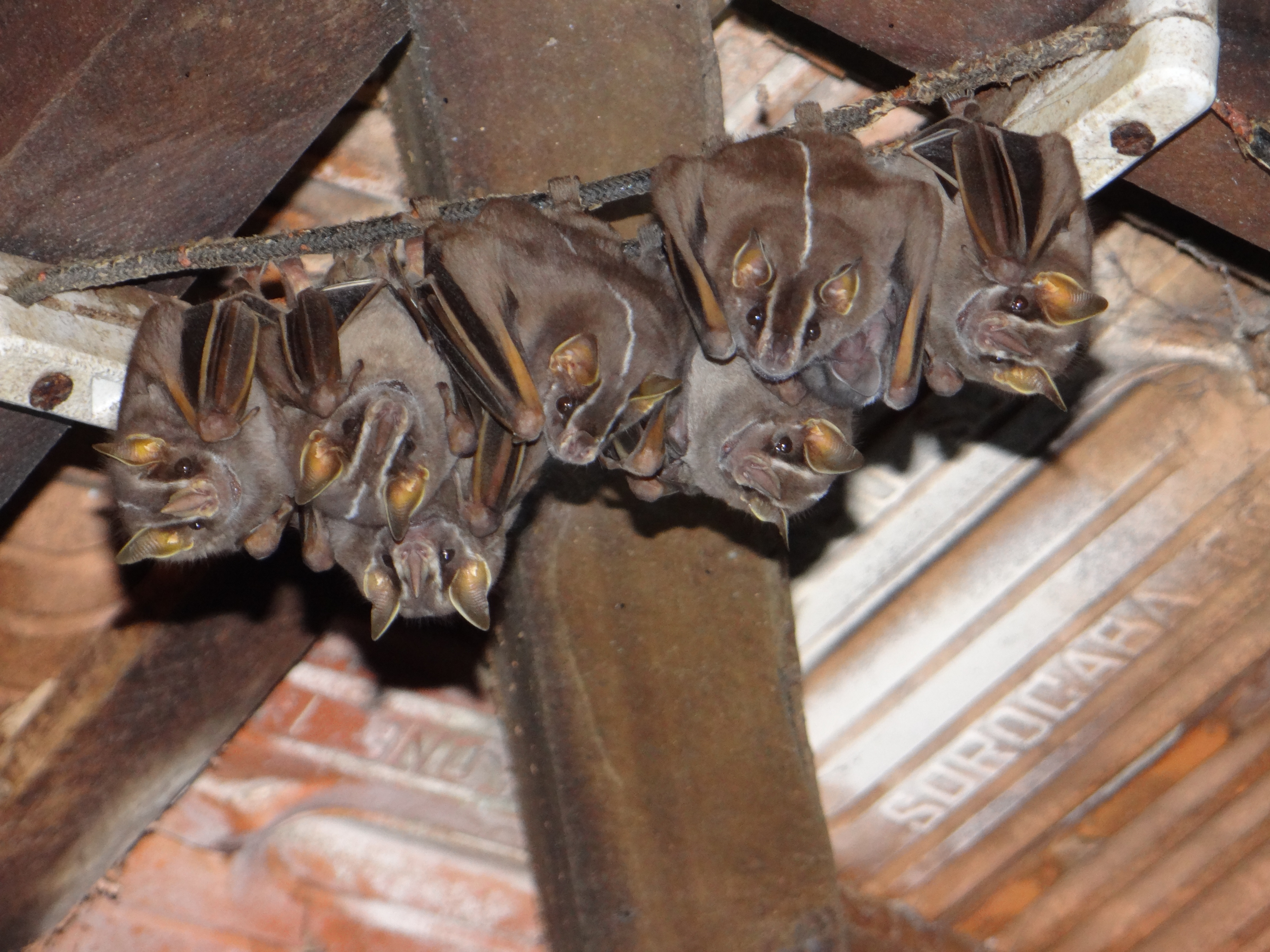 Platyrrhinus sp. (probably P. lineatus) in abandoned house at Pilar do Sul, São Paulo, Brazil.